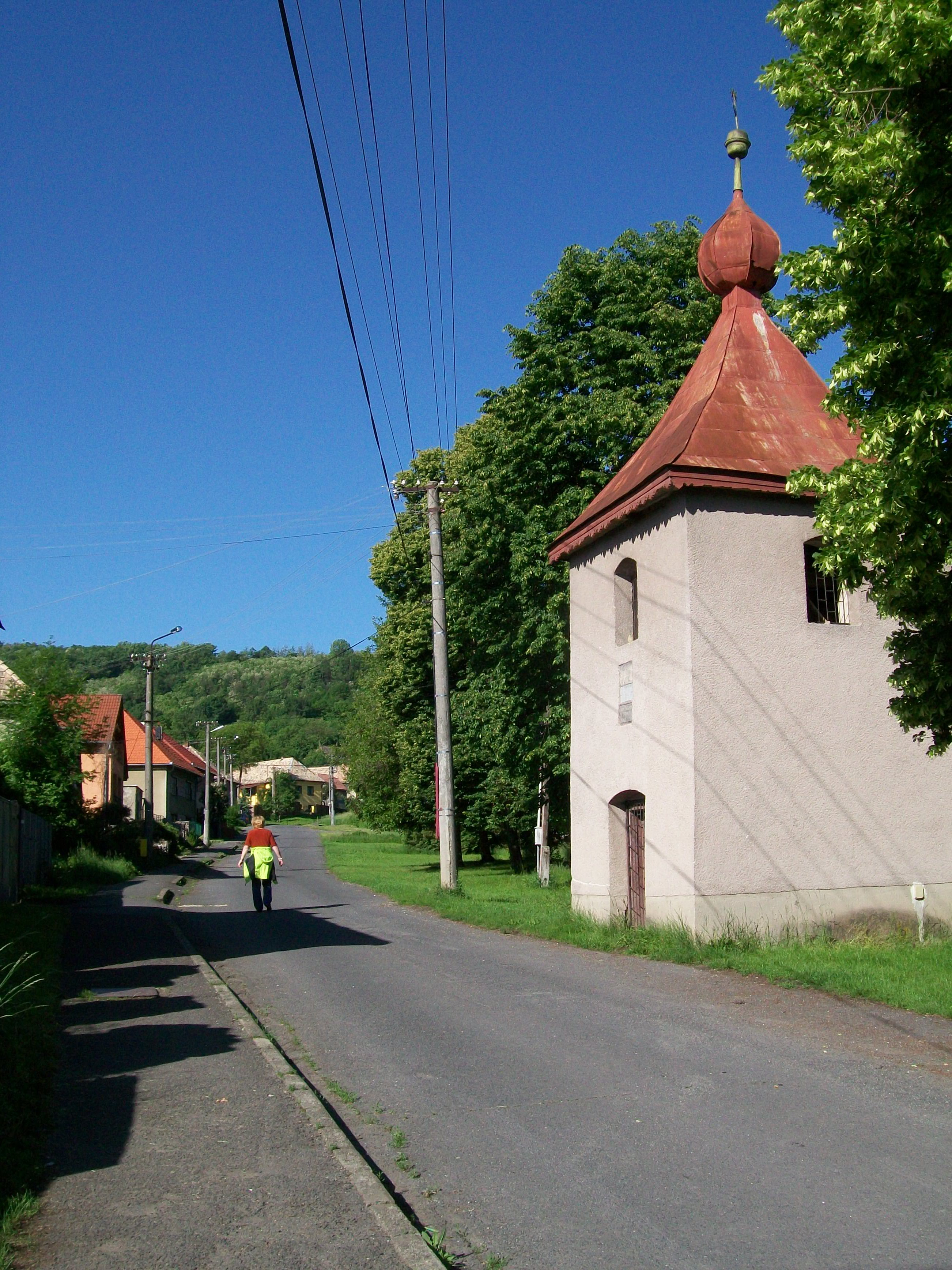 Belfry in the village Lehôtka, built in the year 1893Slovenčina: Zvonica obce Lehôtka, postavená v roku 1893